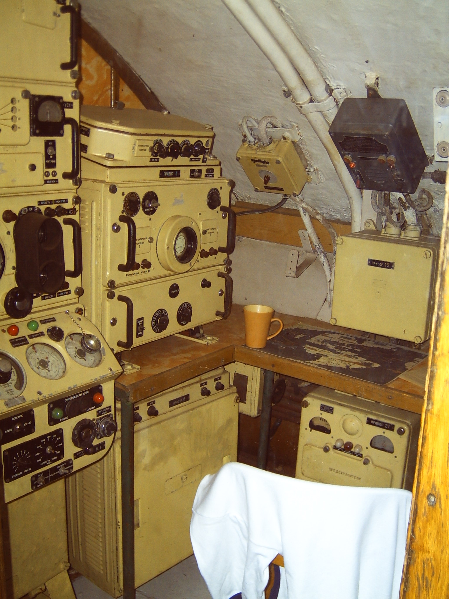 Sonar room (?) of Soviet Foxtrot-class submarine B-143, on display at Seafront maritime theme park, Zeebrugge, Belgium